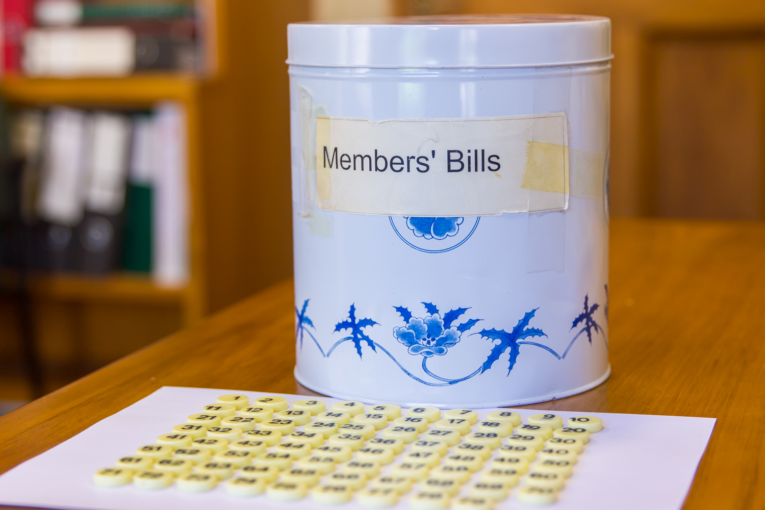 Members’ bill ballot biscuit tin on a desk at the Table Office at New Zealand Parliament.